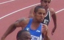 A 200 metres run at the 2005 Athletics World Championships in Helsinki. qualifications - heat 1 (-2.5m/s): 4 lan- Andrew Howe ITA 21.43